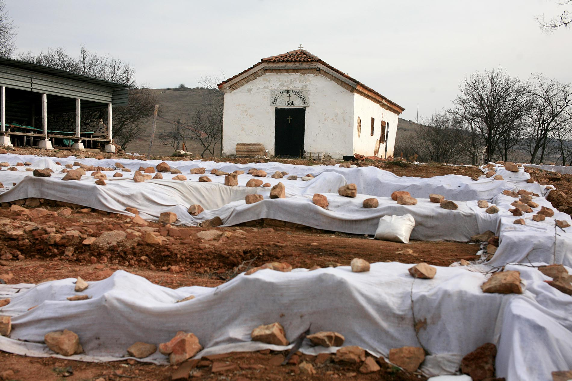 Buhovo Monastery St Mary Magdalene, Bulgaria